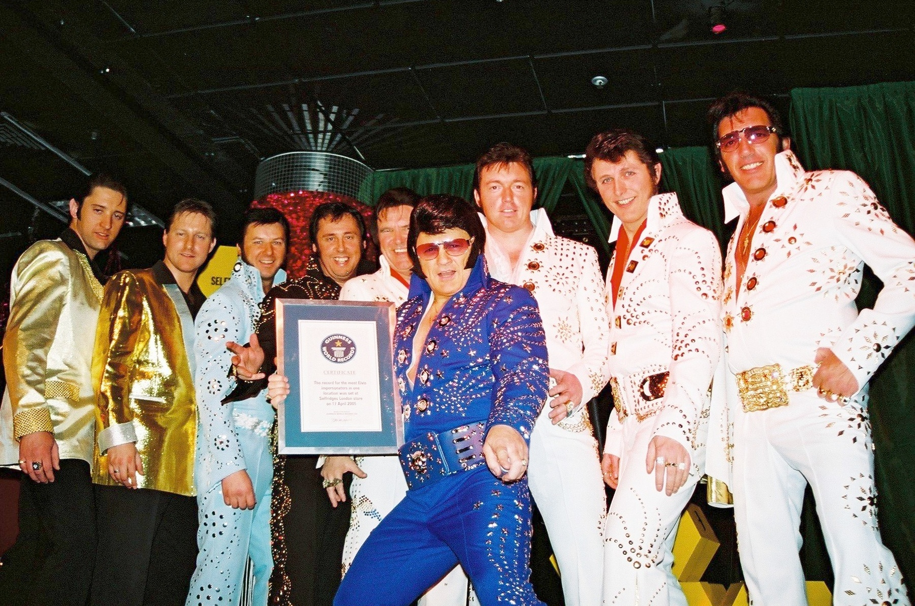 A group of Elvis Presley Tribute Artists, who are all members of (The Association of Professional Elvis Presley Tribute Artists) setting the world record for the most Elvis impersonators in one location. This was an official Guinness World record set at Selfridges department store Oxford Street London on April 17th 2005.